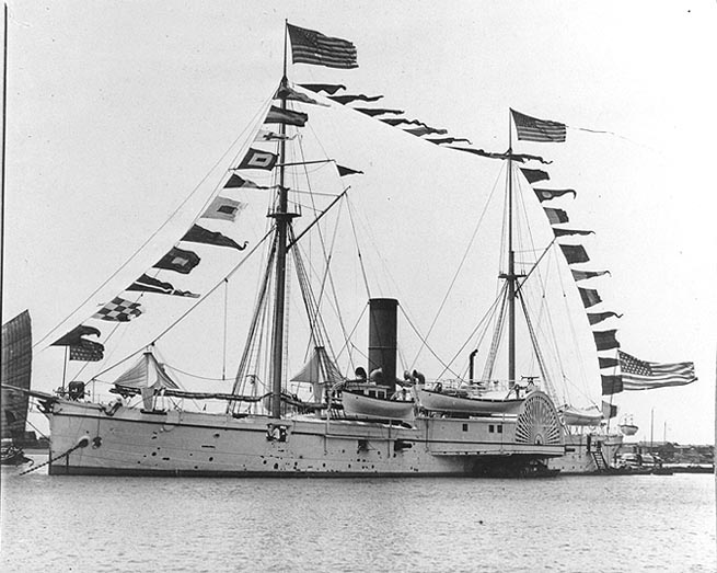 Photo #: NH 100314 USS Monocacy (1866-1903) Dressed with flags, in the Pei-Ho River, Tientsin, China, in about 1902. Photo printed on a stereograph card, copyrighted in 1902 by C.H. Graves, Philadelphia, Pa. Donation of Louis Smaus, 1985 U.S. Naval Historical Center Photograph.